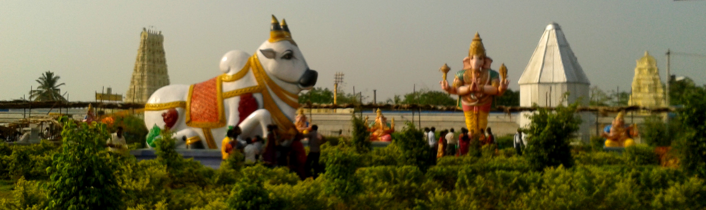 Kanipakam in Chittor district, Andhra Pradesh